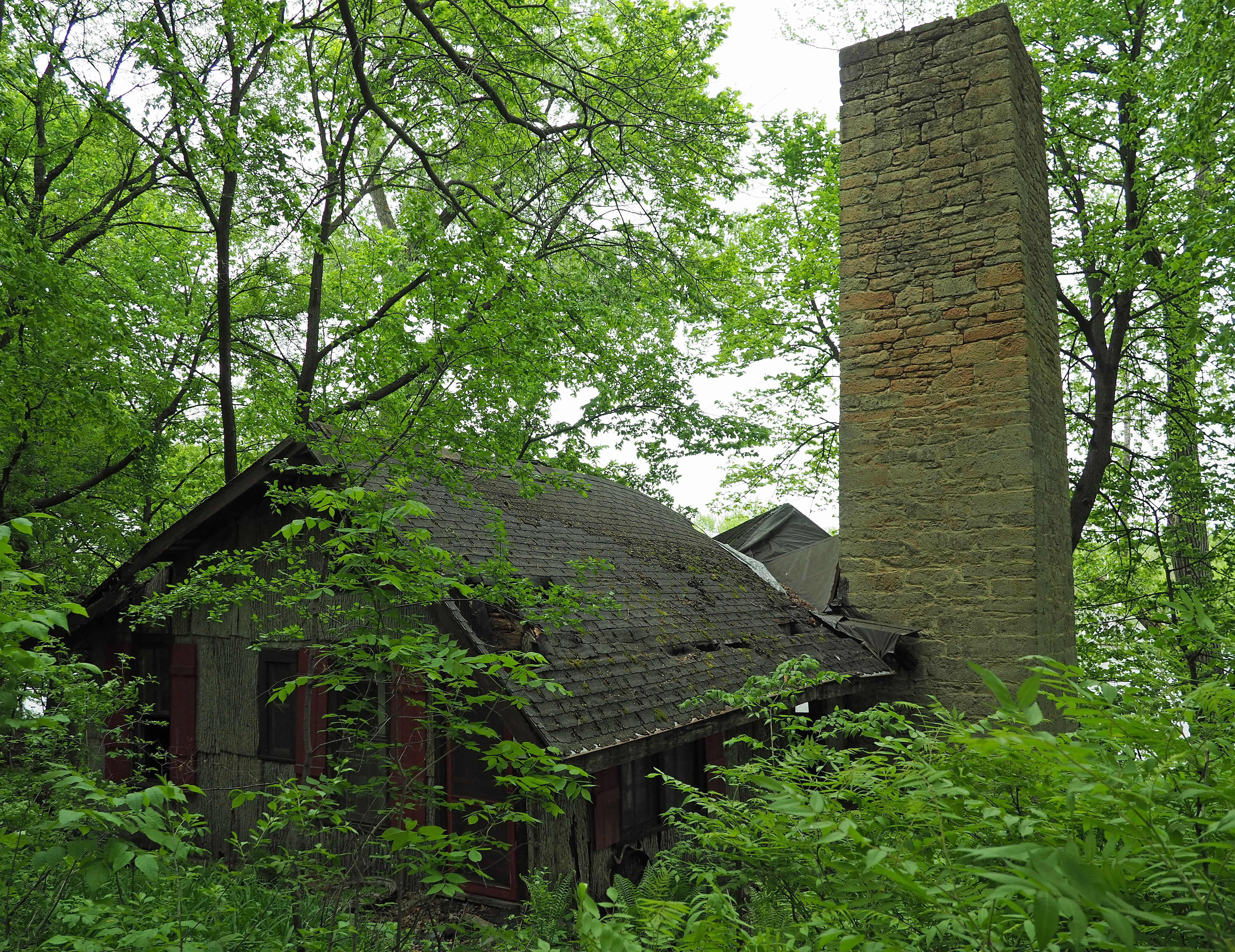 Mid-19th-century chimney of the Arcola Mill with ruins of a 20th-century summer cottage, Arcola Mills, 12905 Arcola Trail N, Arcola, Minnesota, USA. Viewed from the west.